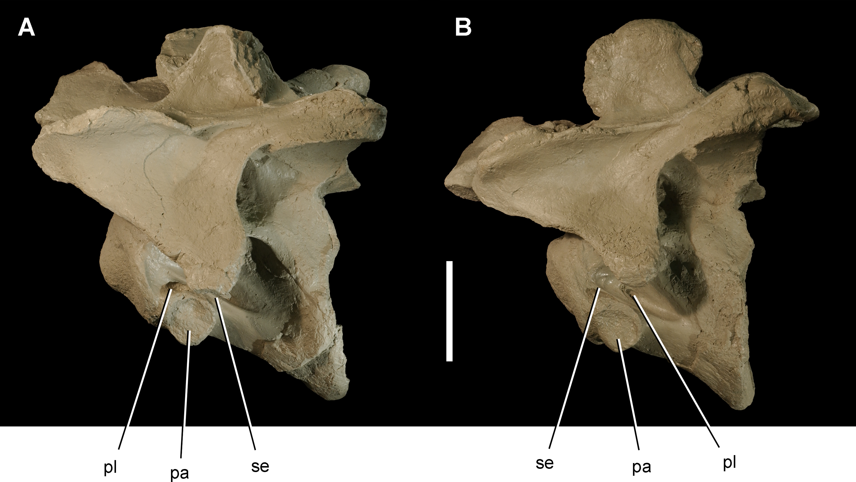 Figure 6. Mid cervical vertebrae of the theropod Aerosteon riocoloradensis. Cervical vertebrae 4 and 6 (MCNA-PV-3137; cast) in left lateral view. (A)-Cervical 4. (B)-Cervical 6. Scale bar equals 5 cm. Abbreviations: pa, parapophysis; pl, pleurocoel; se, septum.